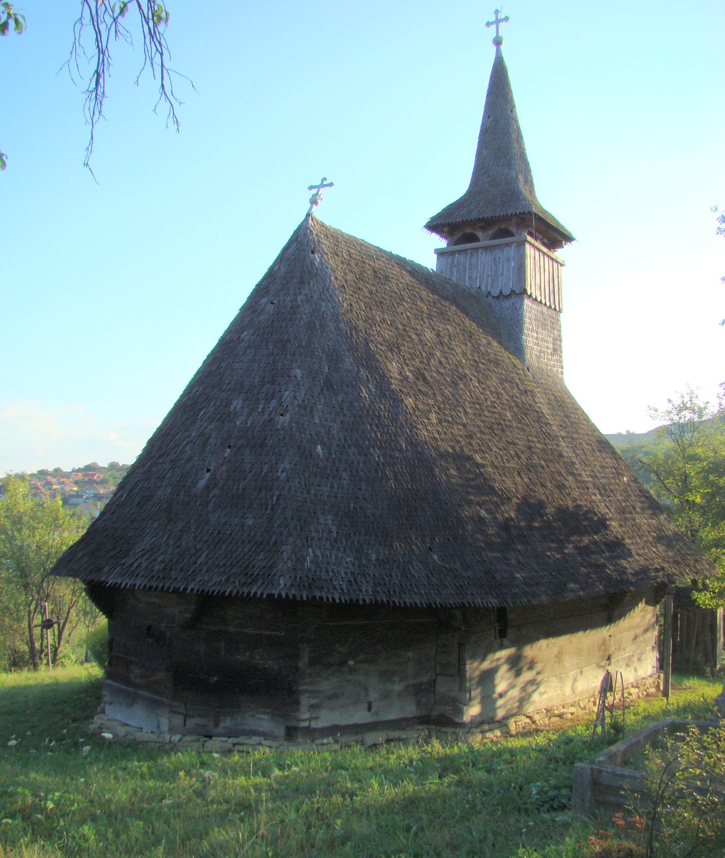 The wooden church in Sic, Cluj county, Romania